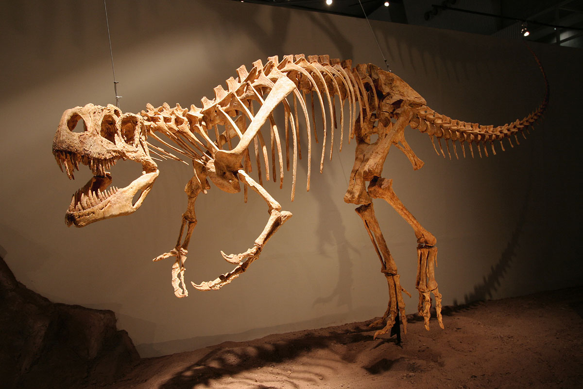 Afrovenator - 01